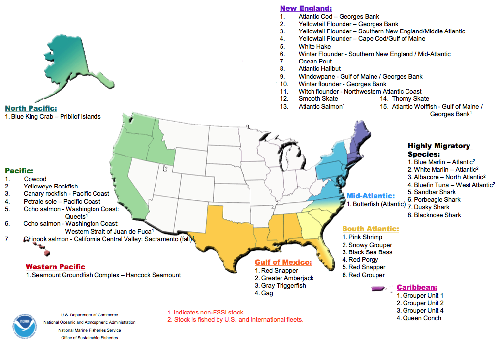 Overfished US stocks 2010